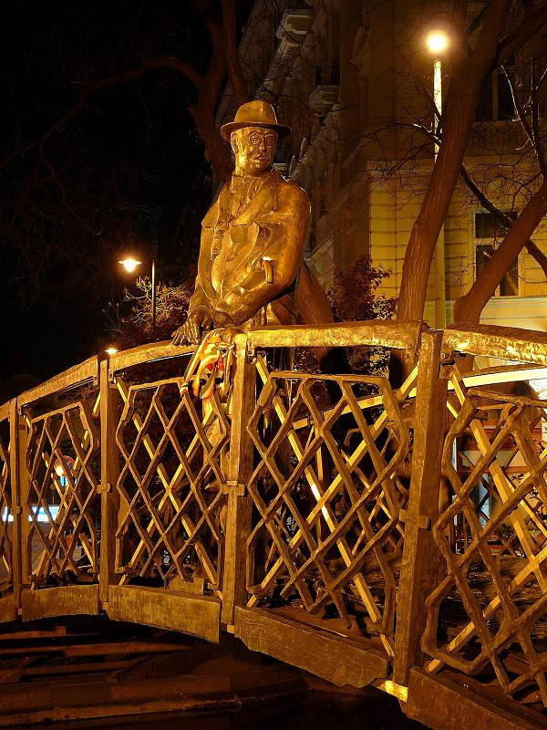 Statue of Imre Nagy in Budapest